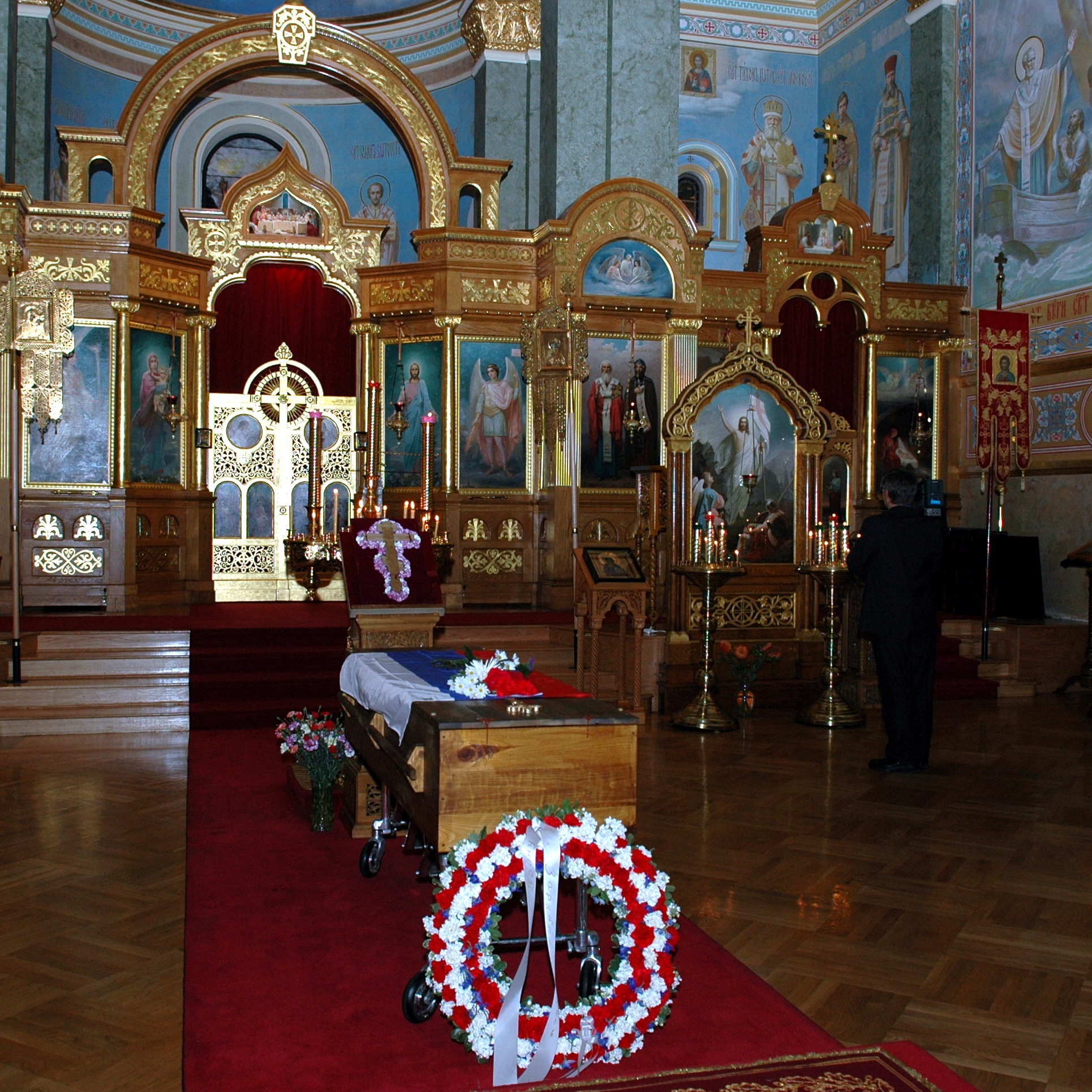 Interior of the St. Nicholas Russian Orthodox Cathedral in New-York